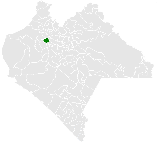 Map of the Municipalty of Chicoasén in the State of Chiapas, México.